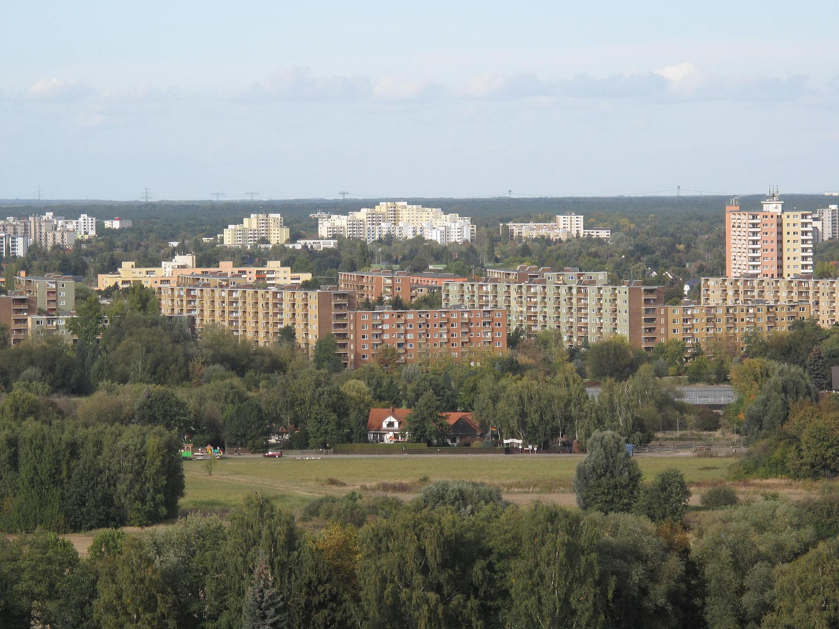 View from the „new“, banked up hill Hahneberg to the Bullengraben-lowland and the Louise-Schröder-Siedlung (settlement) in Staaken. The Bullengraben (german for: bullditch) is a drainage channel to the river Havel in the localities Staaken, Wilhelmstadt and Spandau in the borough Berlin-Spandau, Germany. In 2007 there was opened the green space Bullengraben (german: „Grünzug Bullengraben“) along the 4,5 kilometre long ditch.